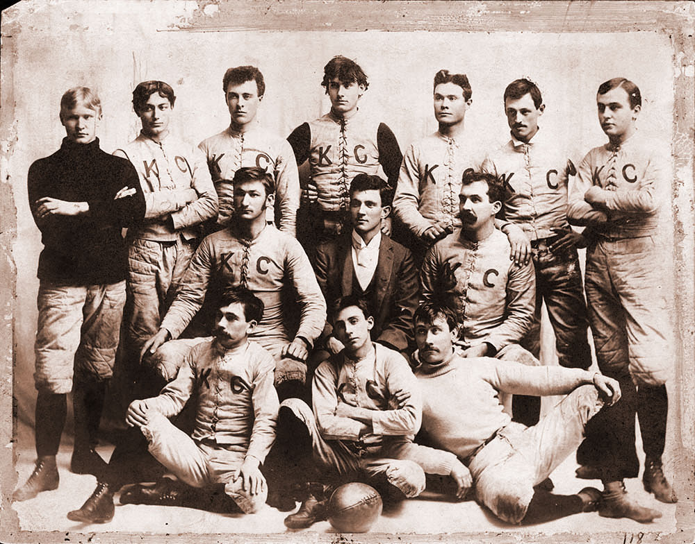 Kalamazoo College's first football team, 1892. First row, left to right: Remington, Stripp, Shelvin. Second row: Weeler, McWilliams, Magill. Third row: Agbast, J. Westnedge, Gregg, Cole, Kinnane, Shutts, Lineau. Absent: R. Westnedge. The J. Westnedge is Colonel Joseph Westnedge, for whom Westnedge Avenue in Kalamazoo is named. Although he began college coursework in about 1895, the 1892-1893 College Catalog lists him as enrolled in Electives. Perhaps he enrolled in one class in order to play on the football team. The photographer is unknown